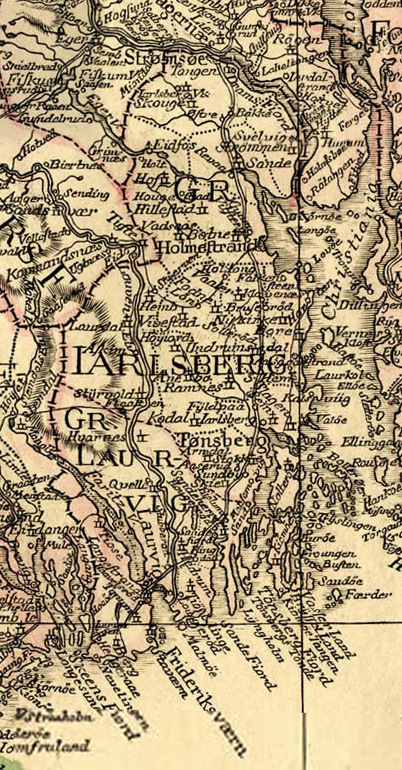 Map over Southern Norway in 1785 drawn by Christian Jochum Pontoppidan.